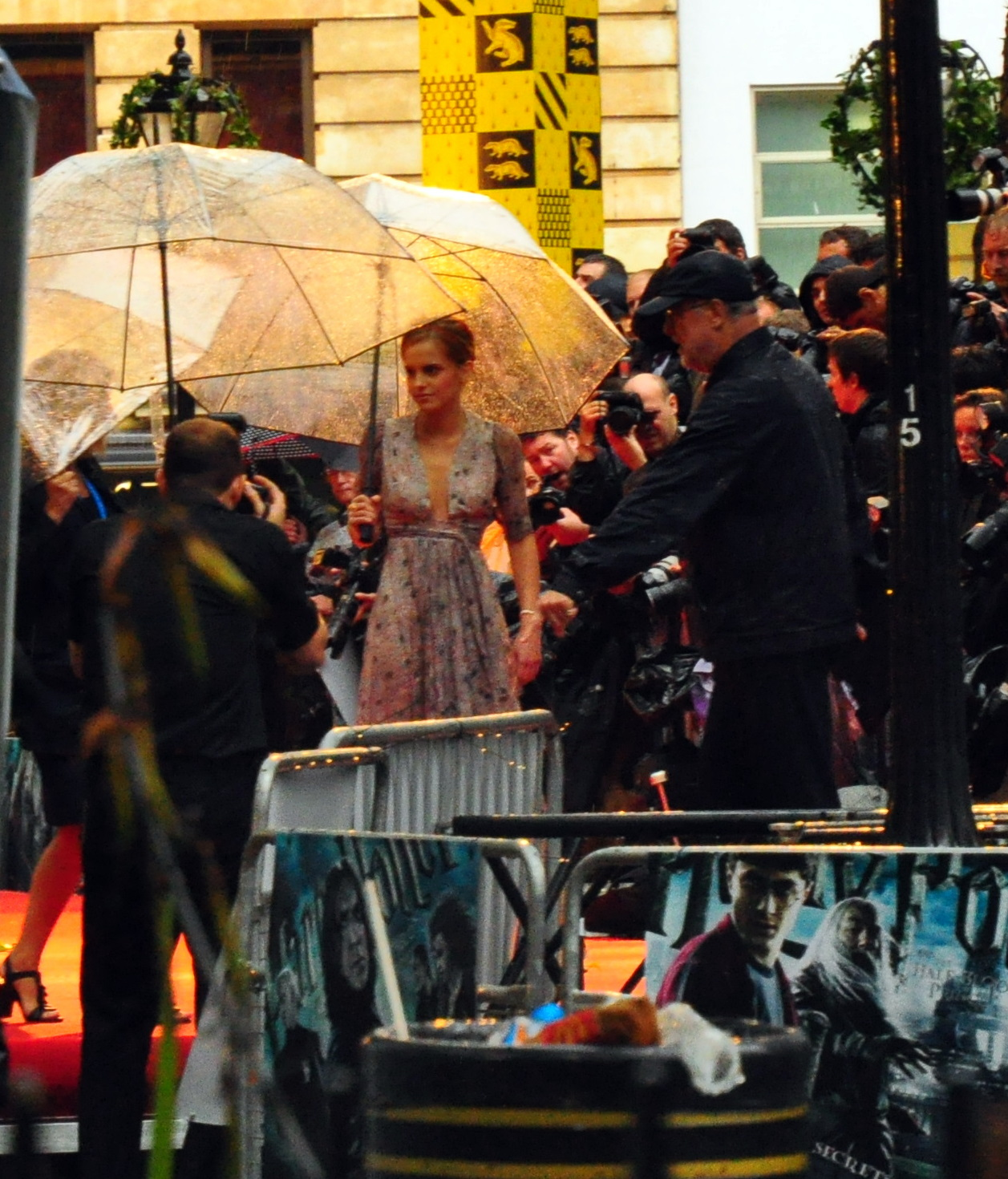 Still no smile, tsk tsk. She should work on her movie star etiquette.